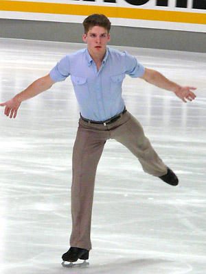 Vaughn Chipeur during his free skate at the 2007 Nebelhorn Trophy.